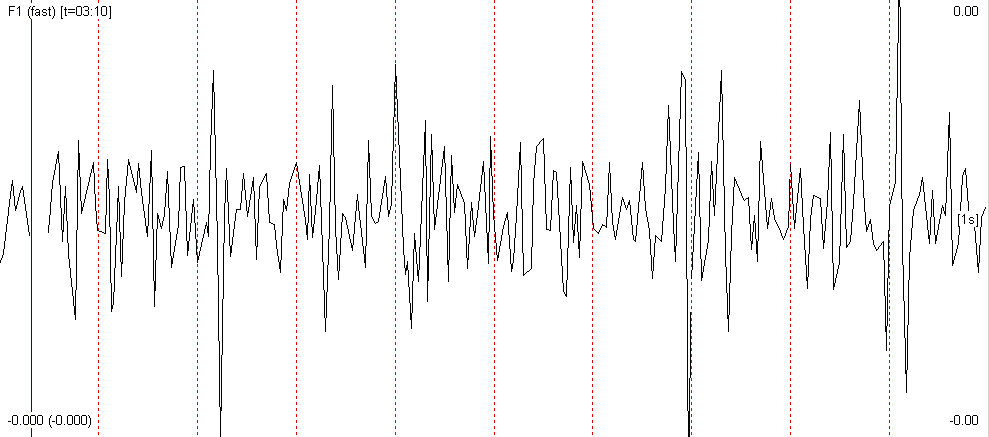 Head movement vestibulogram signal captured by low noise web camera with resolution 640x480 pixels and 30 f/s frequency.